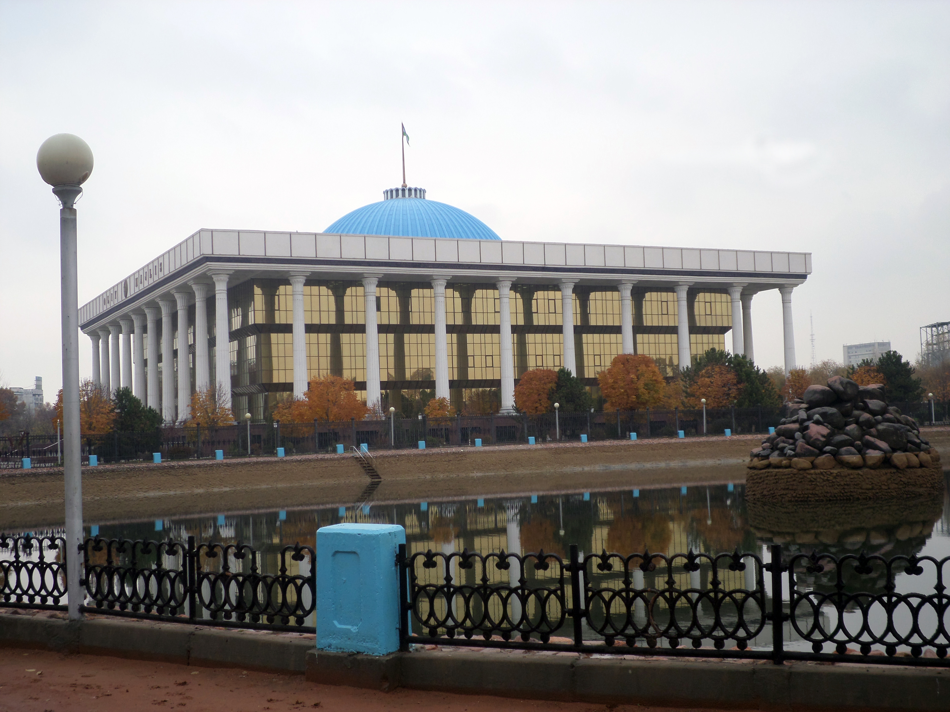 Oliy Majlis parliament of Uzbekistan